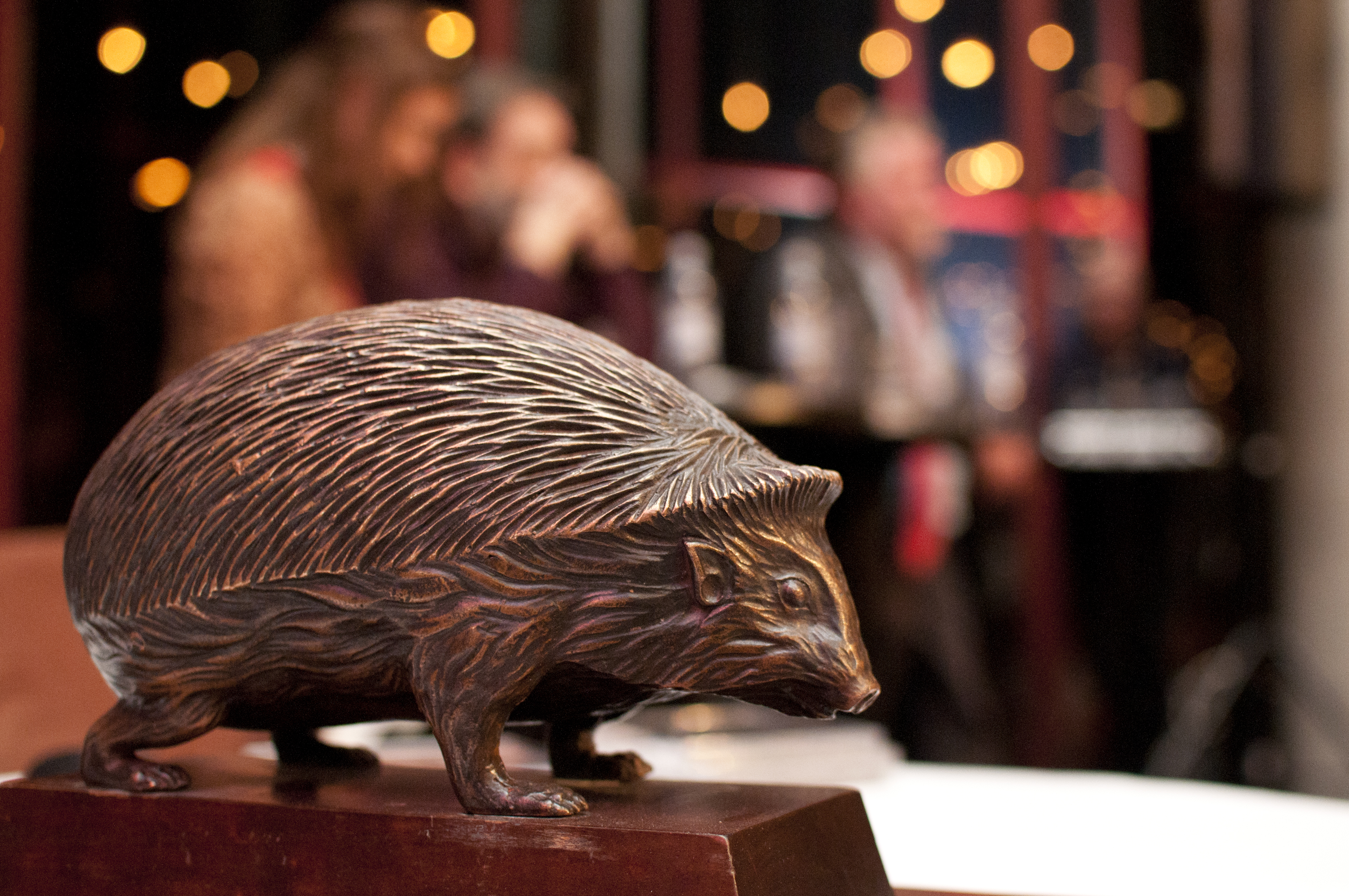 Erinaceus europeus minor, Rex et Inspirator. High protector of The Bergen Student Society, at the 2012 opening ceremony.